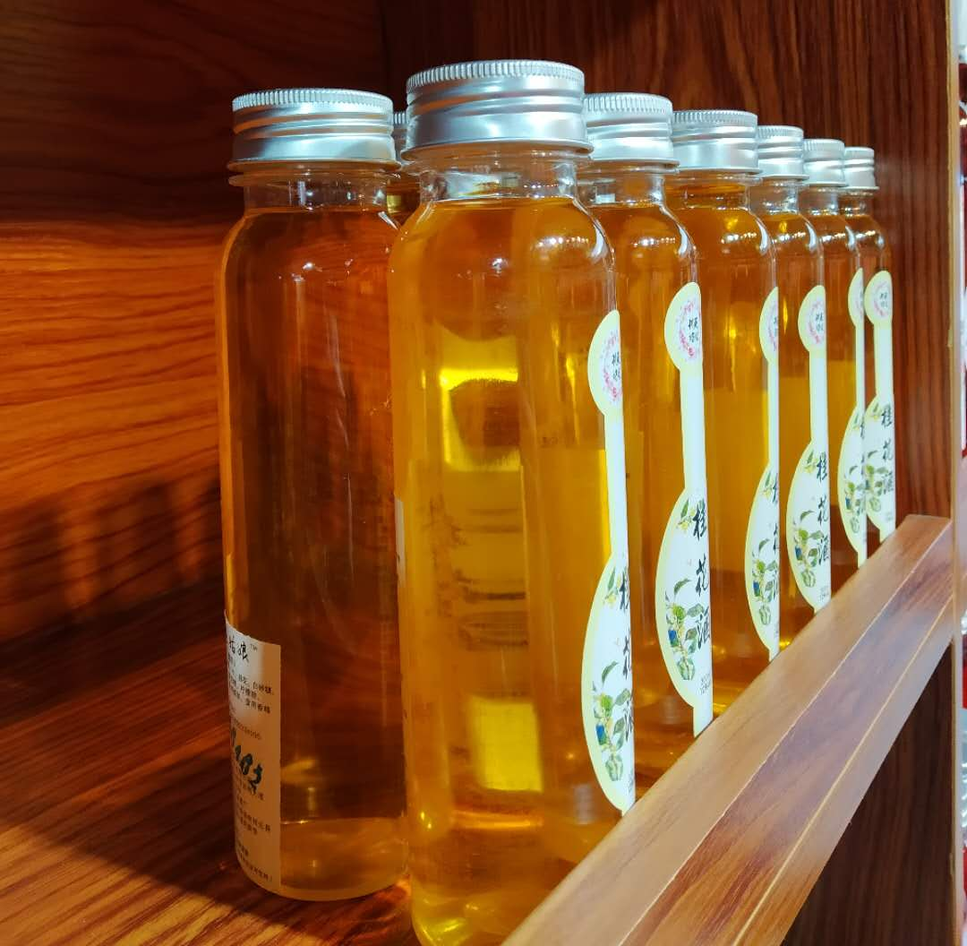 Osmanthus wine (桂花酒) for sale in Dali Old Town.